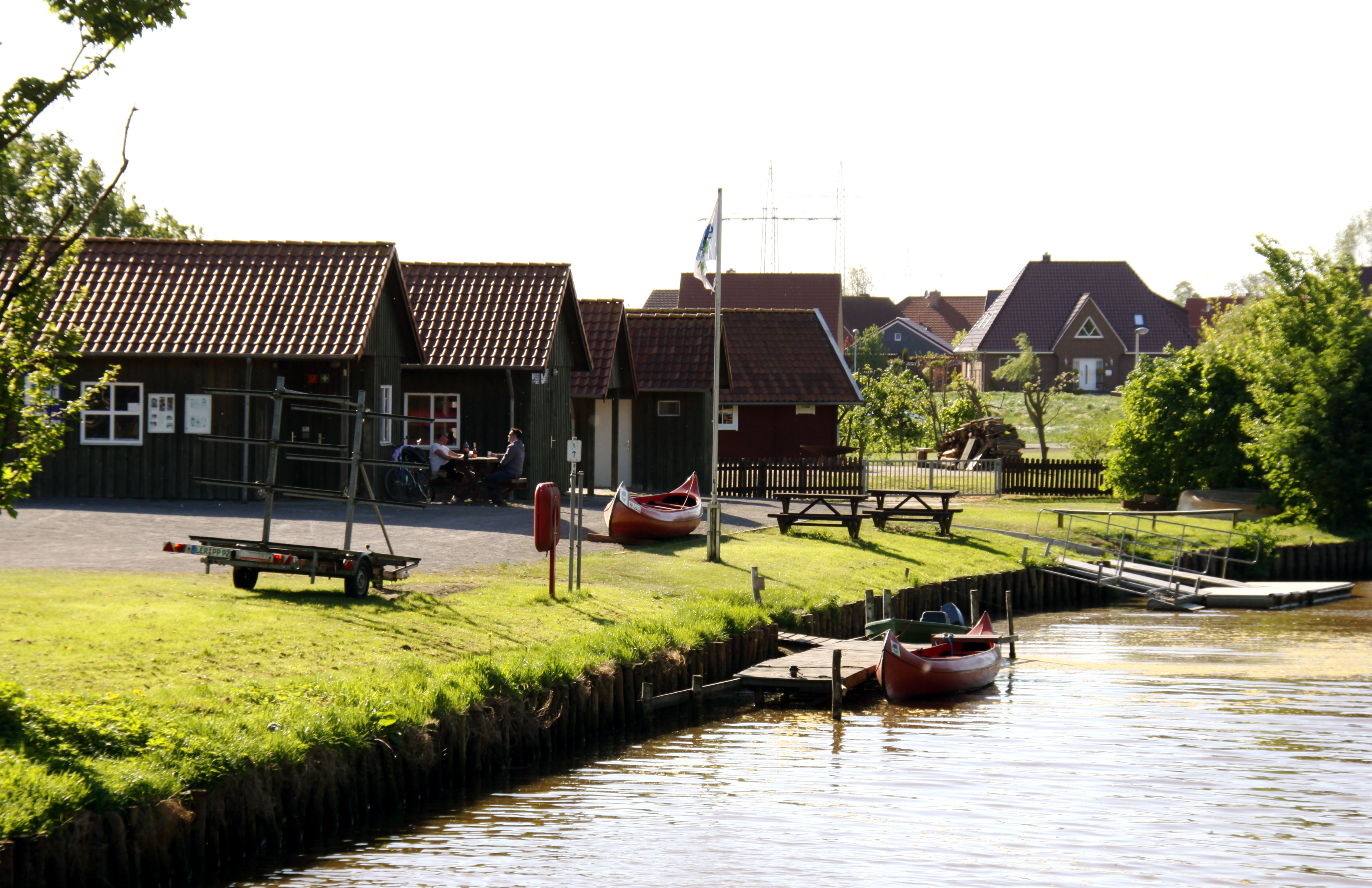 Paddel- und Pedal-Station Rorichum